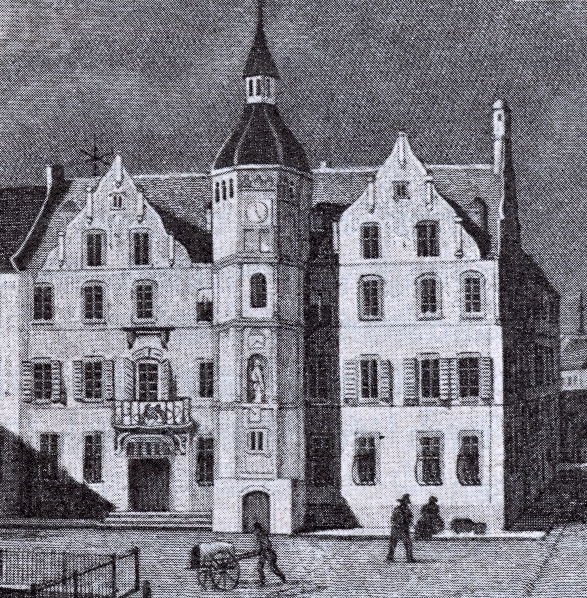 t